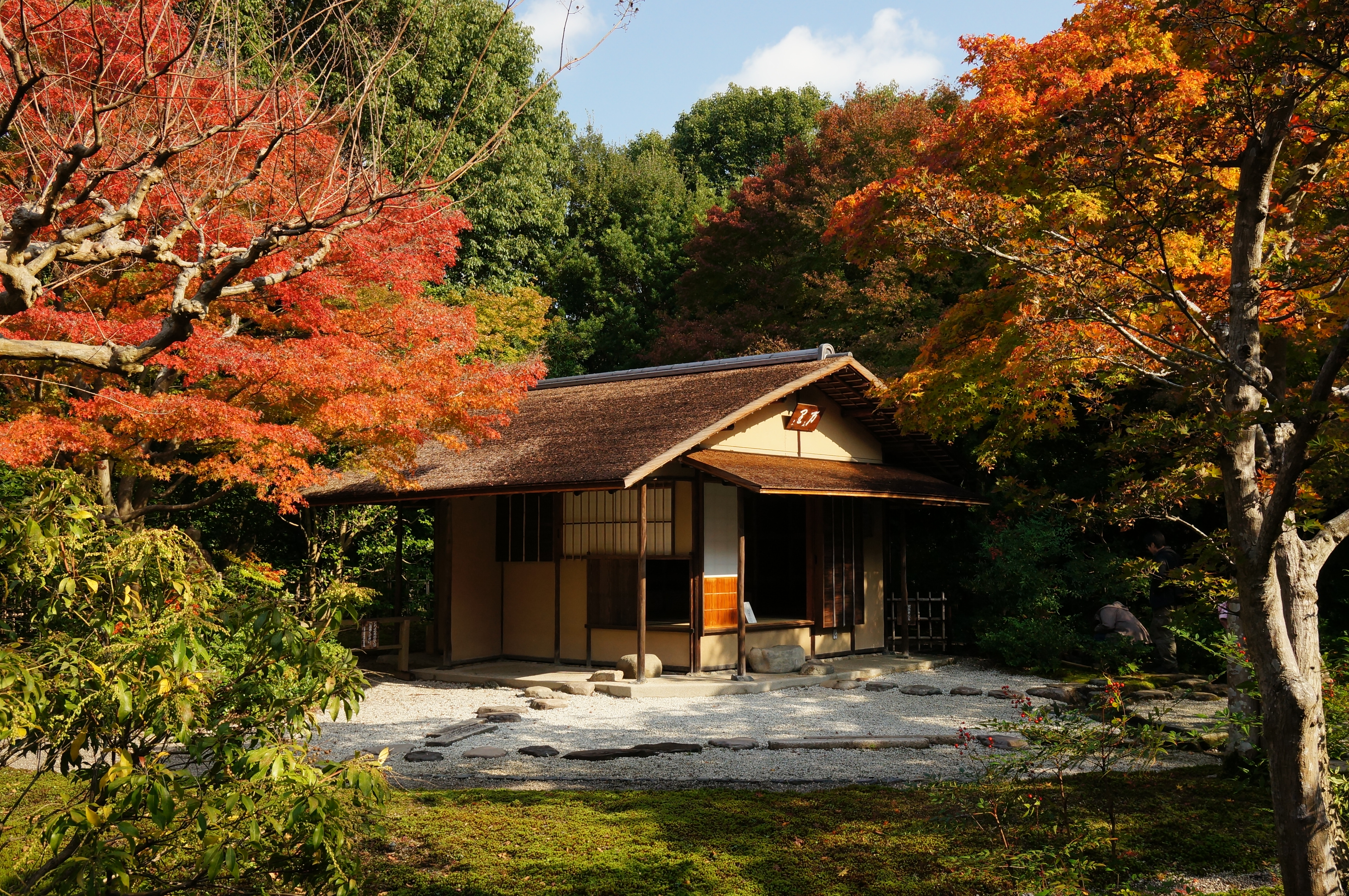 At Expo '70 Commemorative Park in Suita, Osaka prefecture, Japan.